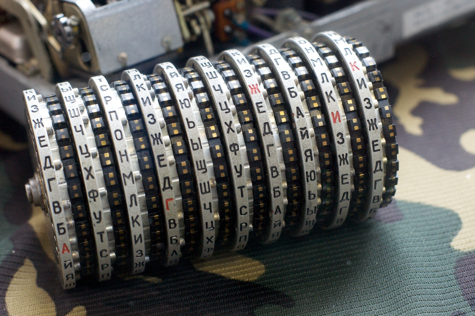 Russian cypher